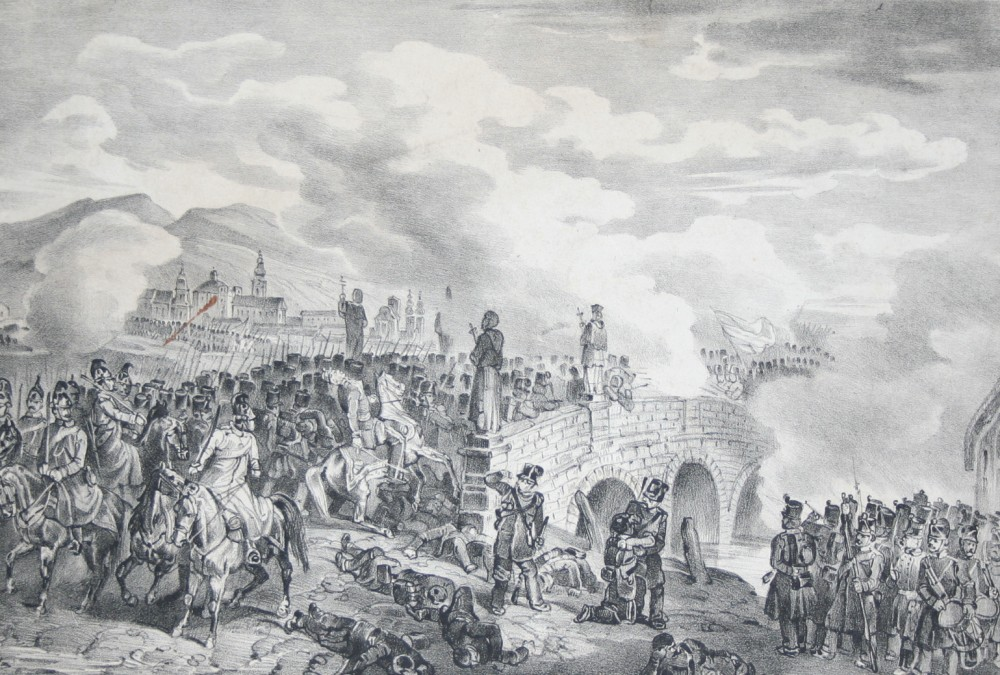 The fights around the bridge in the NBattle of of Vác at 100.04.1849